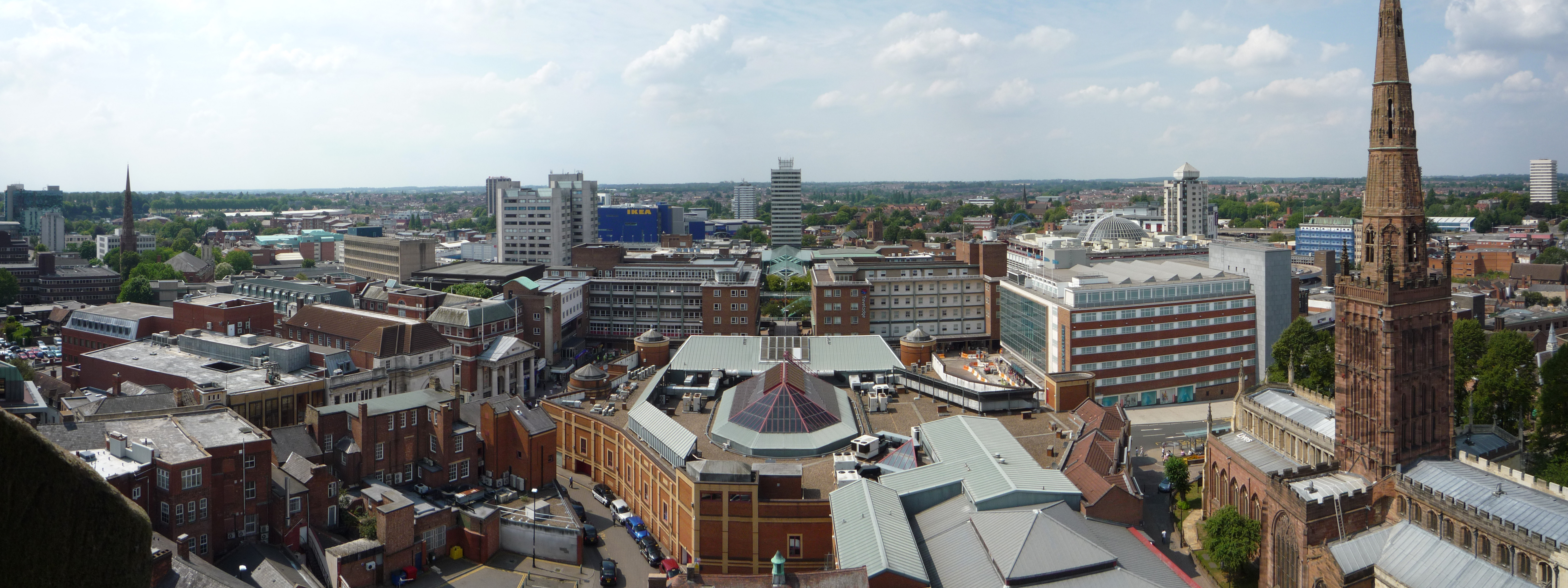 Coventry Cathedral Tower panoramic views, taken on 3rd August 2011 by Si (User:mintchociecream). This version released into the public domain via Wikicommons on 25 Aug 2011. West view - towards Broadgate